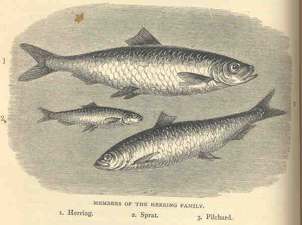 Members of the Herring Family. 1.Herring. 2.Sprat. 3.Pilchard . Subject: Herring, Sprat, European Pilchard Tag: Fish